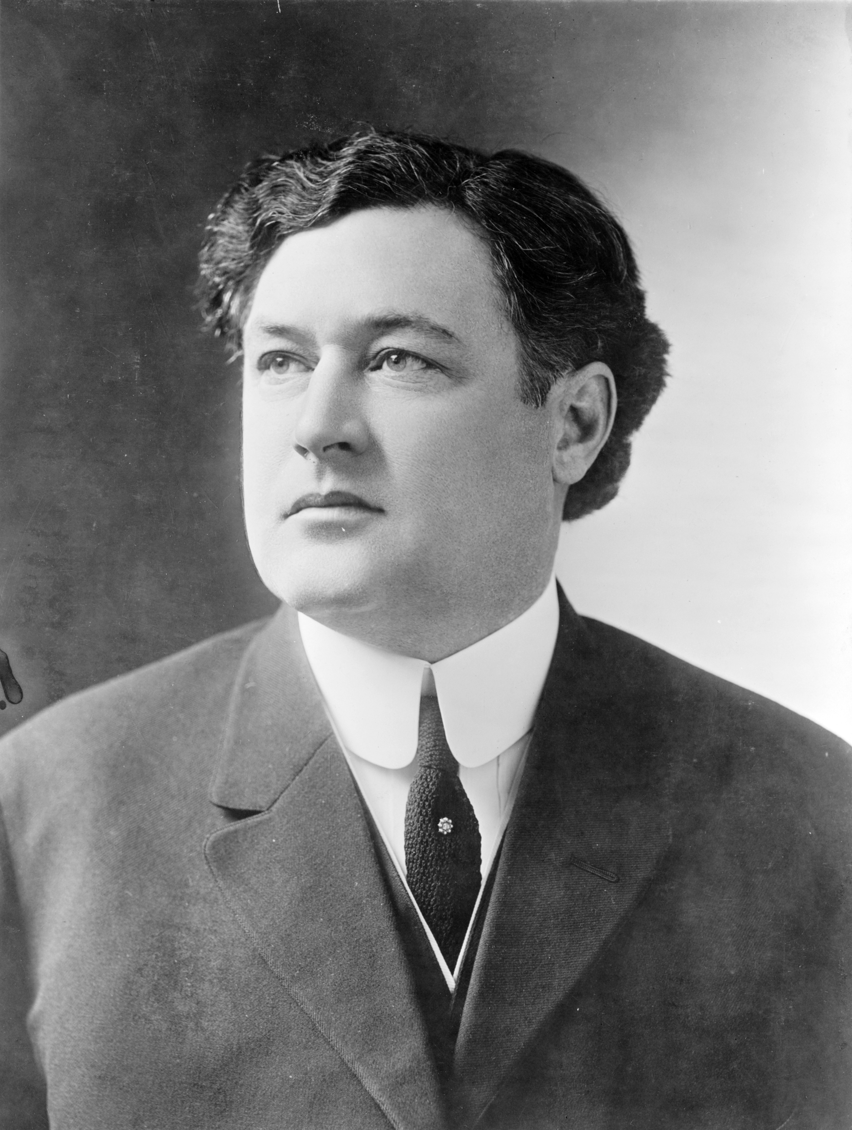 Former United States Representative from New Jersey Edward F. McDonald.